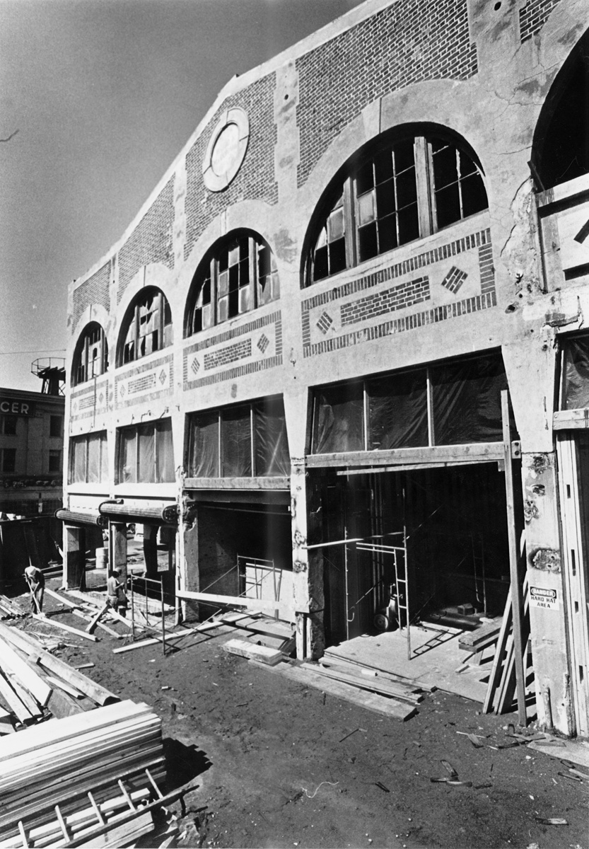 Pike Place Market, Seattle, Washington. Corner Market undergoing rehabilitation, 1975, during a major rehabilitation of nearly all buildings in the Market.